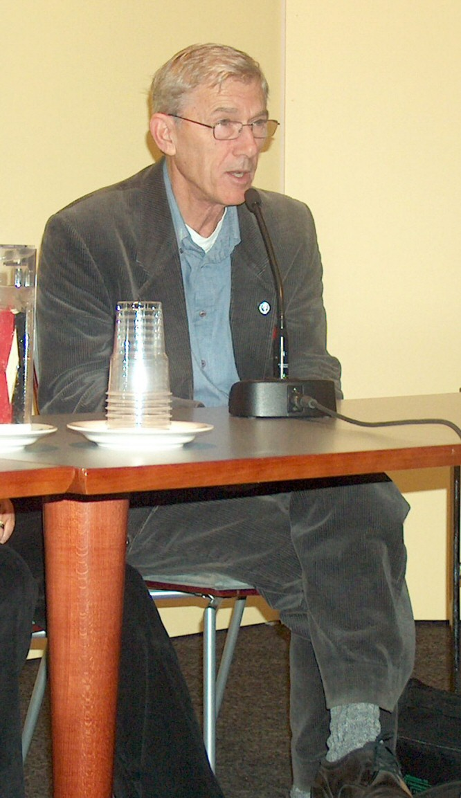 Theodor Kallifatides, Swedish writer, at the Helsinki Book Fair in 2004